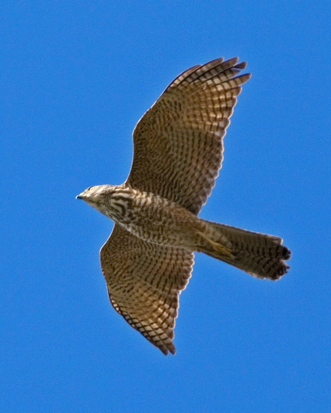 An immature Brown Goshawk (Accipiter fasciatus) in flight in Tasmania, Australia Camera data Camera Canon EOS 400D Lens Canon EF 400mm f5.6L Focal length 400 mm Aperture f/5.6 Exposure time 1/1600 s Sensivity ISO 400